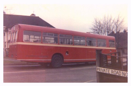 An Alder Valley bus. A poor quality photo, but one which shows the rarely photographed early red and cream livery. The photo was taken in early 1972, soon after formation of the company. The bus is a Bristol RE with double sets of doors and was operating service 15 (Shortheath to Aldershot) in Green Lane, Farnham. The small gold letters of the Alder Valley fleetname are positioned on the red background below the second passenger window, just to the left of the fence post.